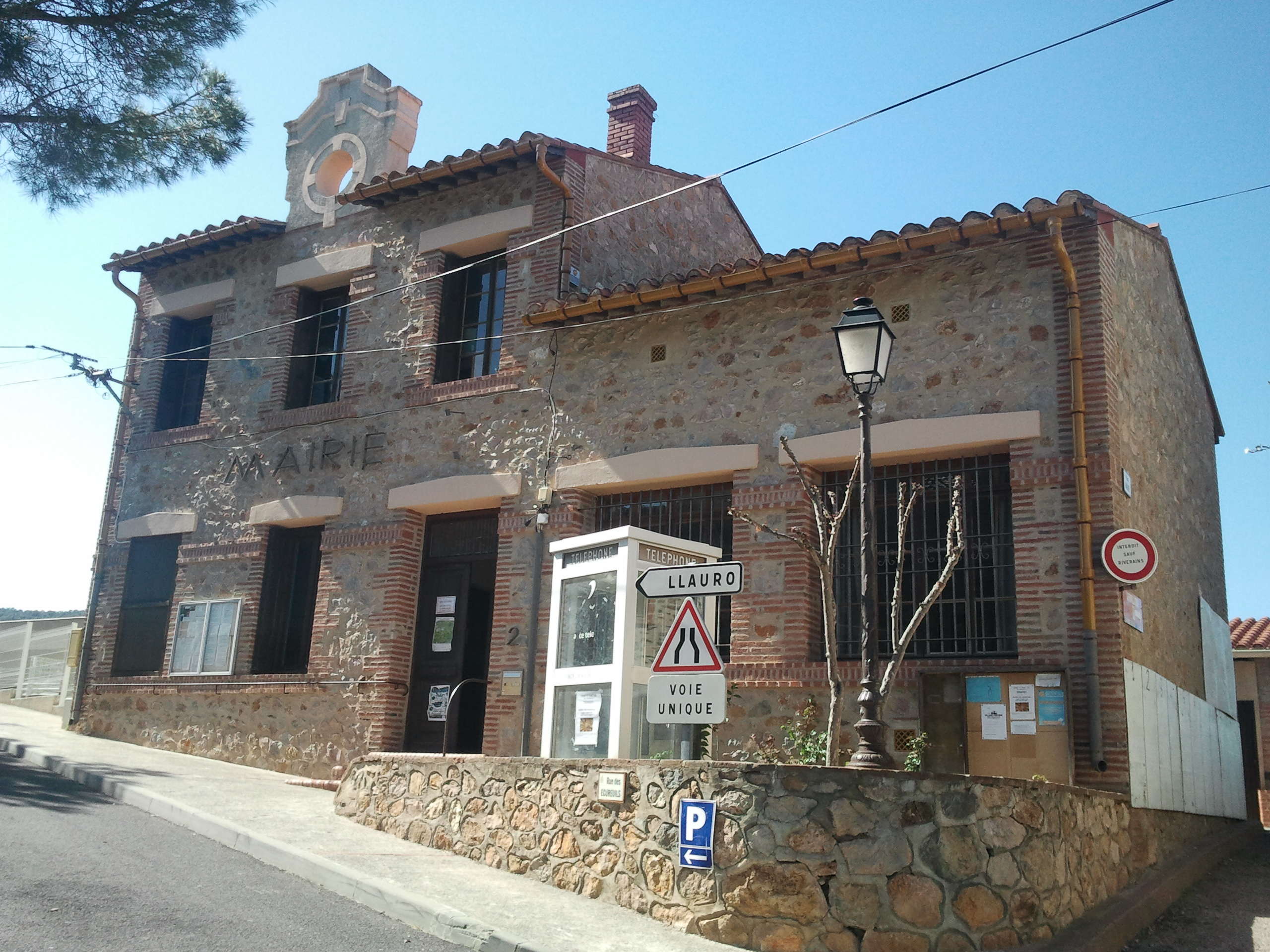 The town hall in Tordères